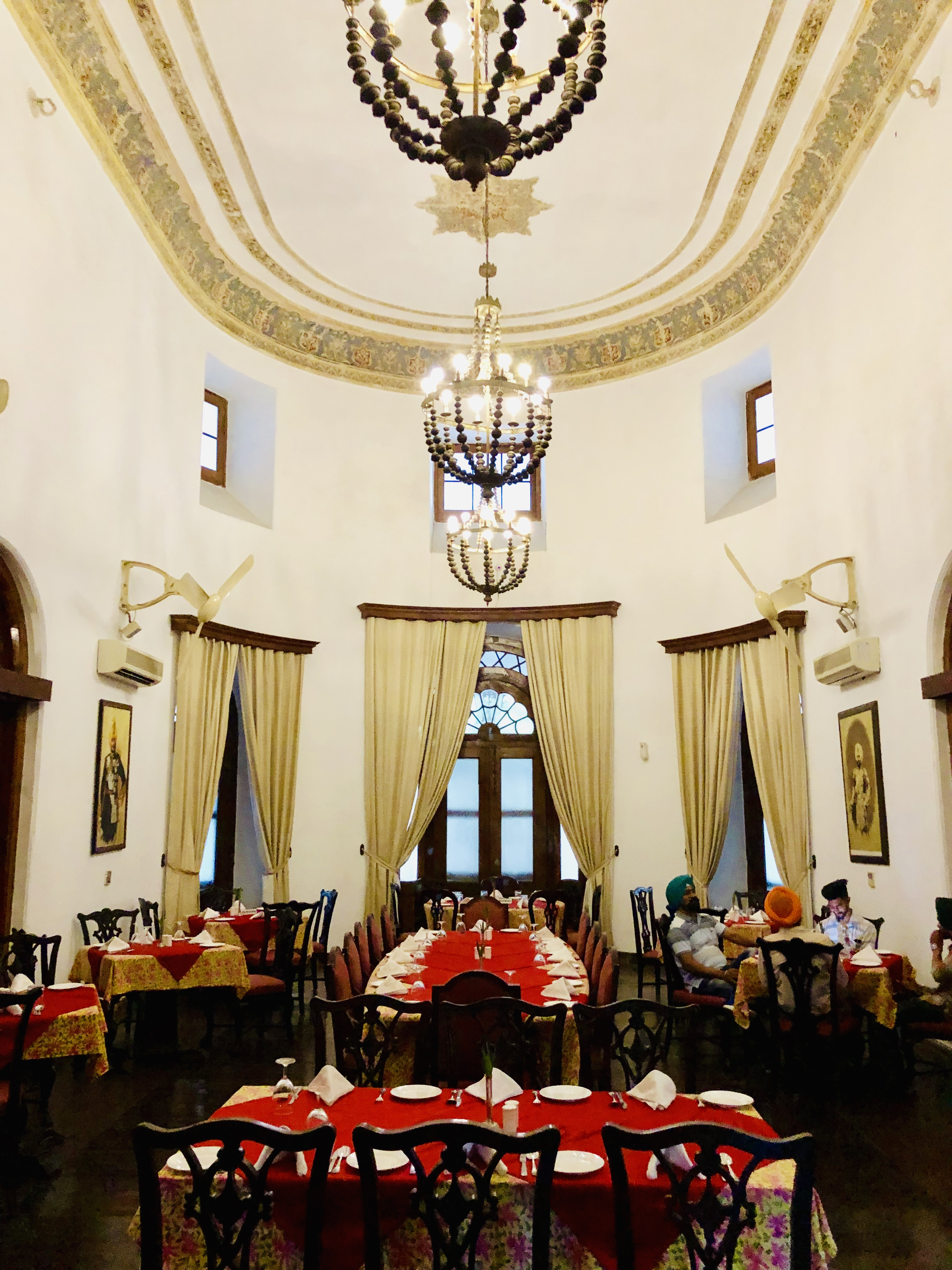 Dining area now part of a hotel